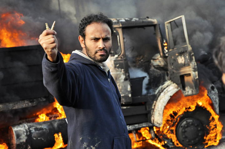 One of the protestors holding some of the army bullets, standing in front of a burning army vehicle that was burned by the protesters during the army massive attack, at least 2 protestors were killed by the army and tens wounded. Tahrir Square - April 09, 2011 - 7:42 AM